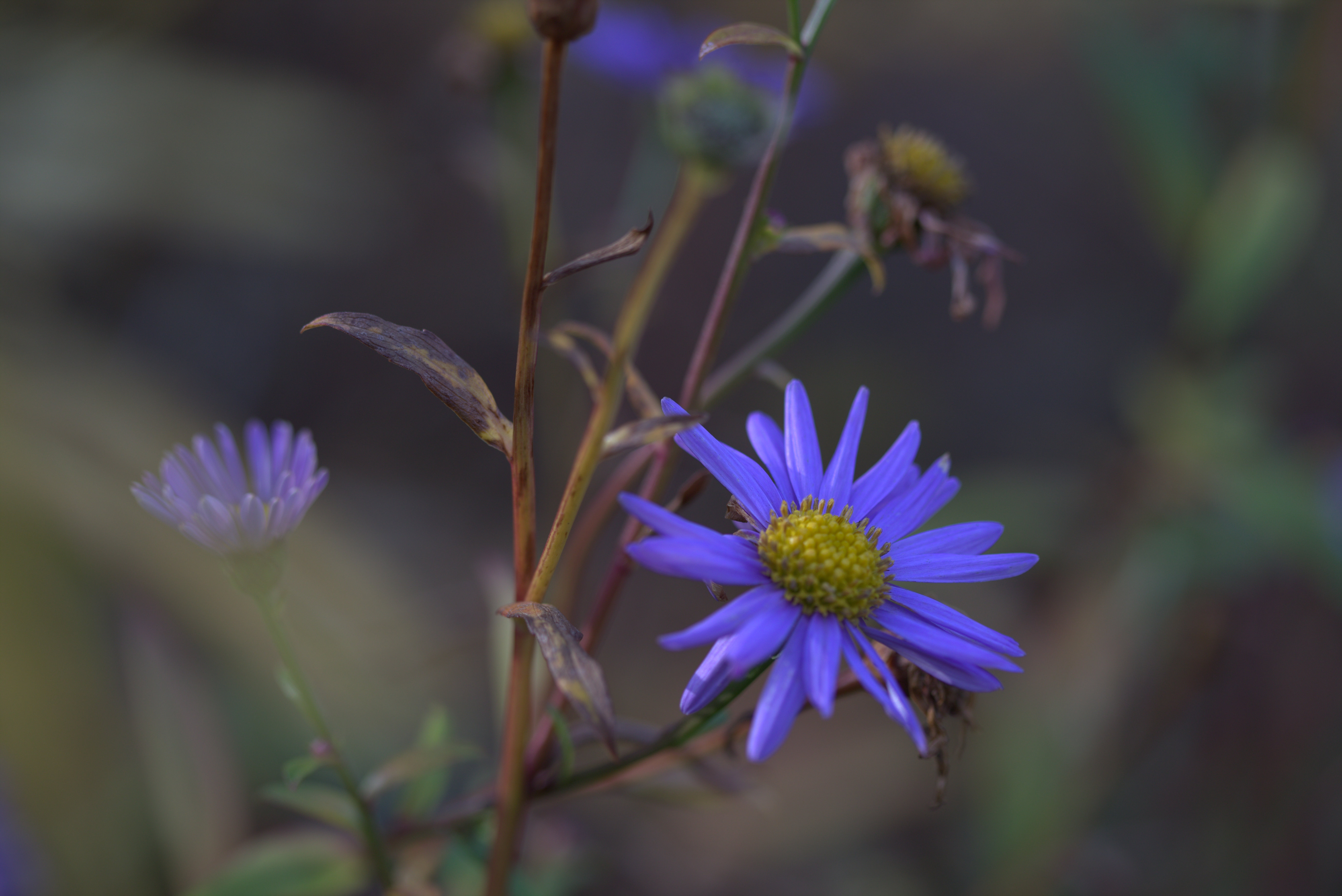 Miyamayomena koraiensis in Gothenburg Botanical Garden. Plant id: 2009-1251 s G -- Pyung gang